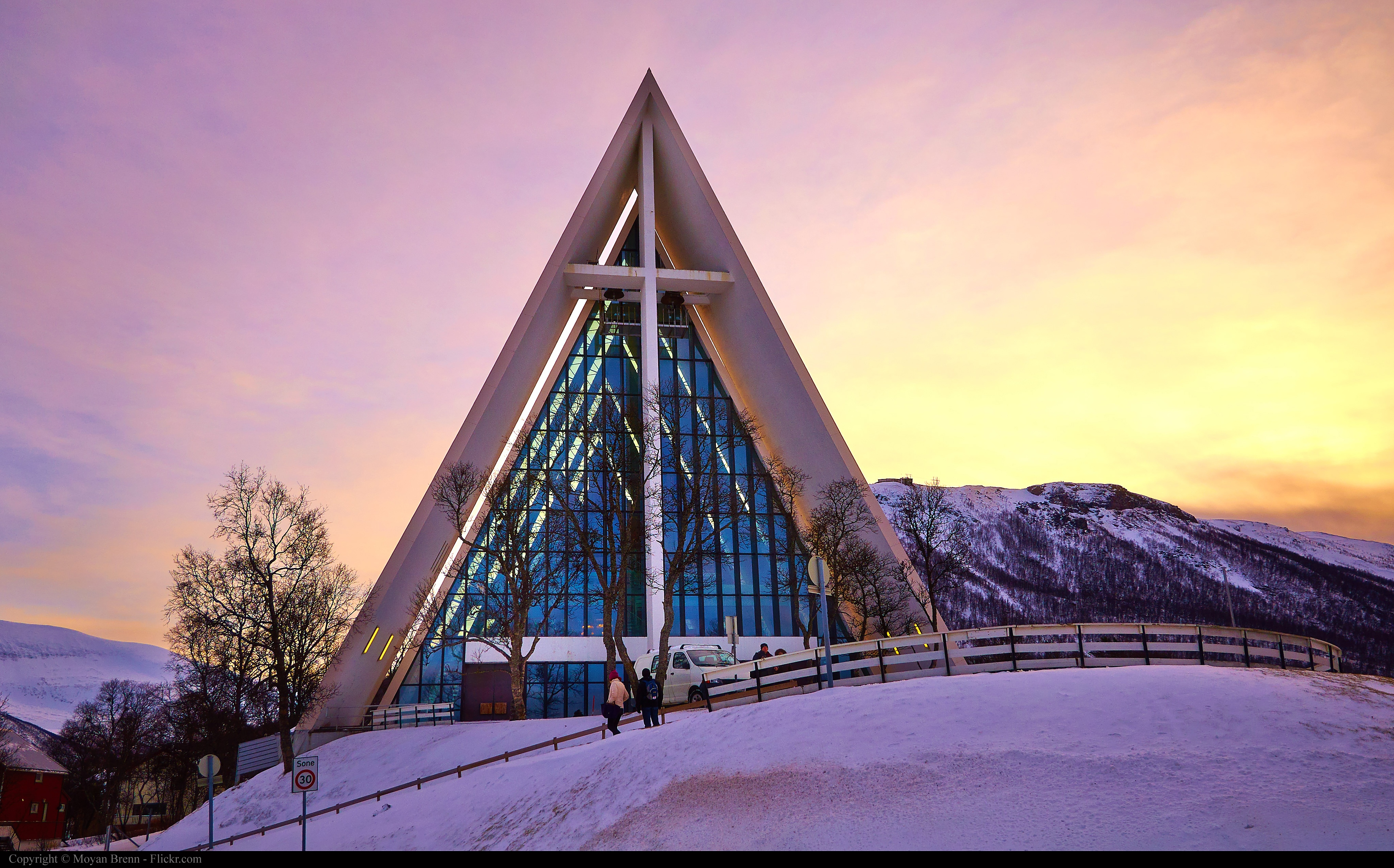 shot taken outdoor in the afternoon